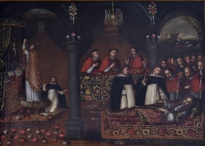 Morte do Principe D. Afonso, filho de D. Joao II, na Ribeira de Santarem